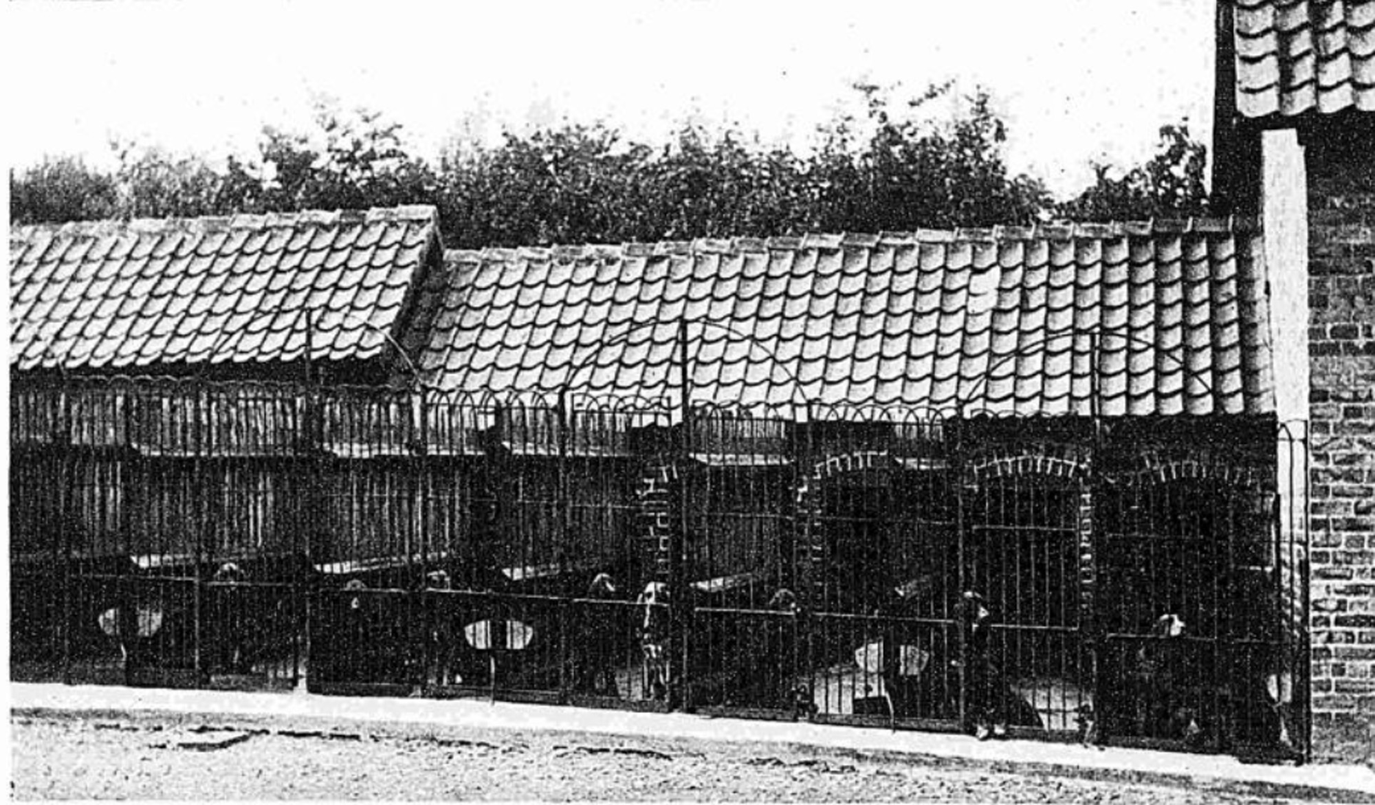 Kennels at Scalby Manor in 1898